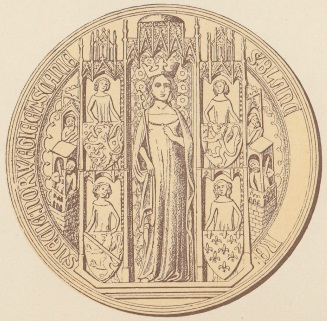 Seal of Queen Blanche of Namur (to Norway and Sweden), from document dated 1 May 1346, Lødøse. Featuring the coat of arms of the House of Bjelbo/Folkung, Norway, Namur and France. Text: "S' BLANC[he : dei : gracia : regi]NE : / SUECIE : NORWEGIE : ET : SCANIE". Size: 76 mm.